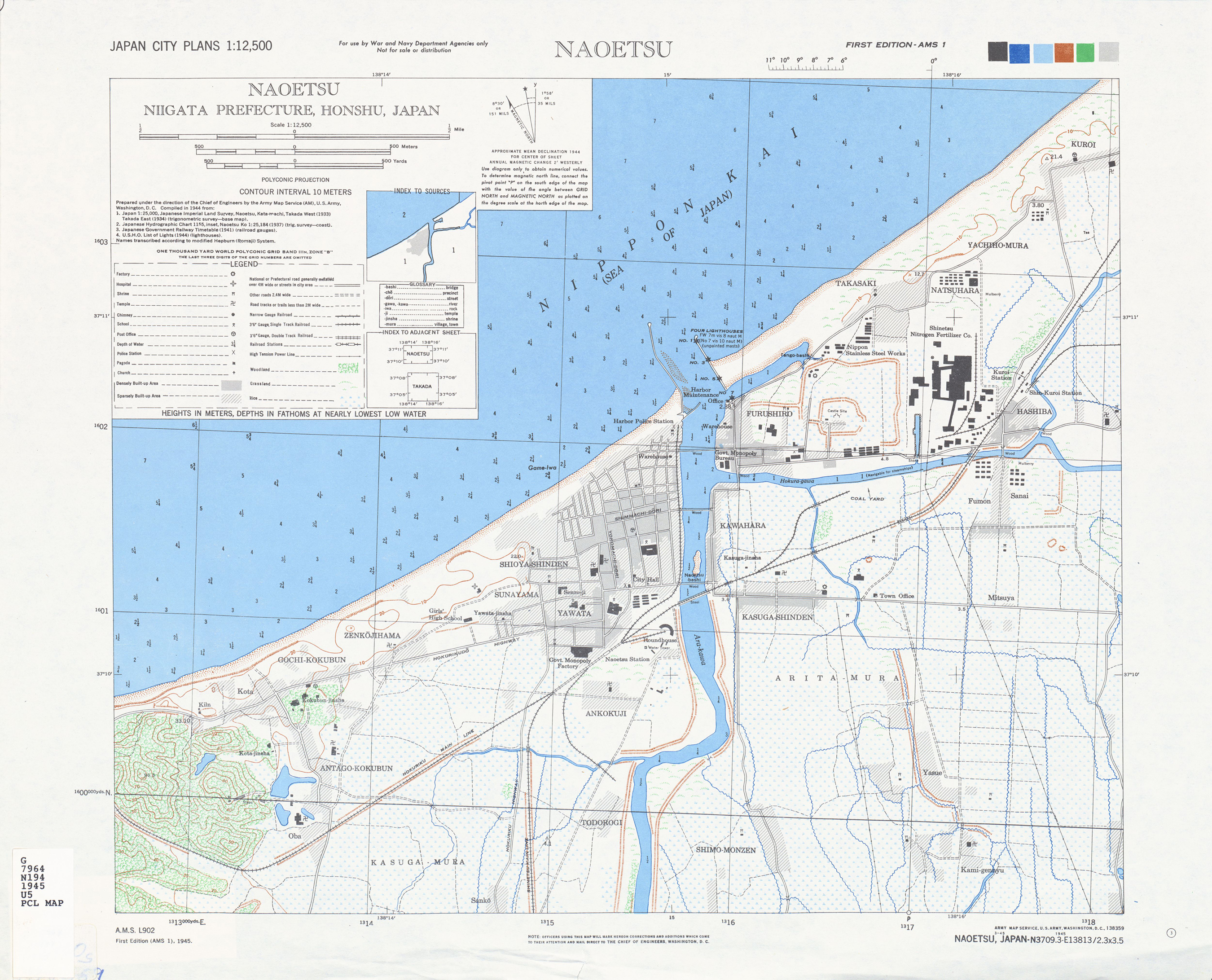 Map of Naoetsu (current Jōetsu), Niigata Prefecture, Japan by U.S. Army Map Service, 1945. Compiled in 1944 from: 1. Japan 1:25,000 Japanese Imperial Land Survey, Naoetsu, Kata-machi, Takada West (1933) Takada East (1934) 2. Japanese Hydrographic Chart 1155, inset, Naoetsu Ko 1:25,184 (1937) 3. Japanese Government Railway Timetable (1941) 4. U.S.H.O. List of Lights (1944)